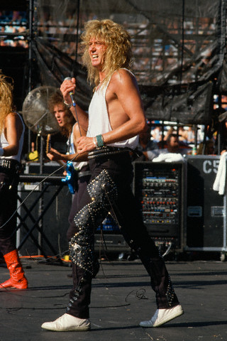 I took this white on tour with whitesnake in 1987